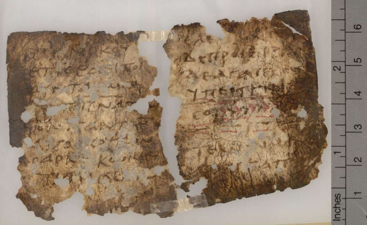 Papyrus Oxyrhynchus 1782 side B, IV cent.